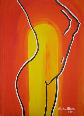 painting "sugar in my bowl" by Martina Schettina